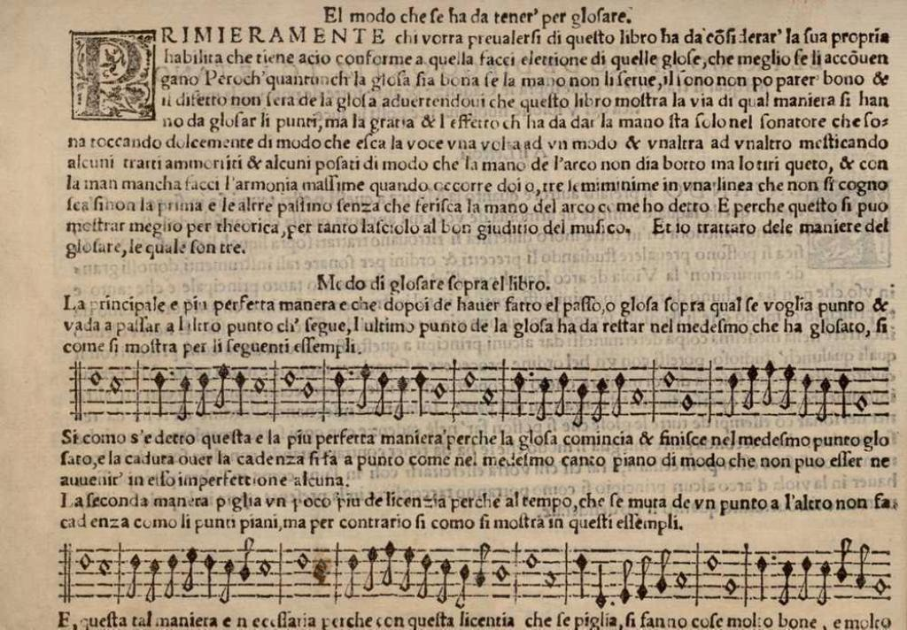 page 5 from Diego Ortiz's (ca.1510–ca.1570) Trattado de Glosas